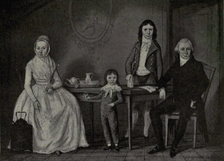 Dutch Art in the Nineteenth Century